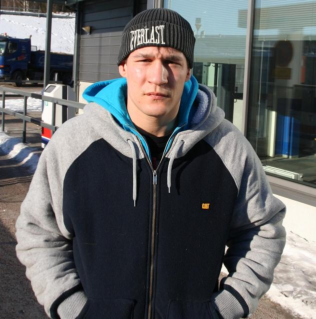 Finnish professional boxer Amin Asikainen in Kirkkonummi, Finland, in february 2007. Photo by Jonny Smeds.